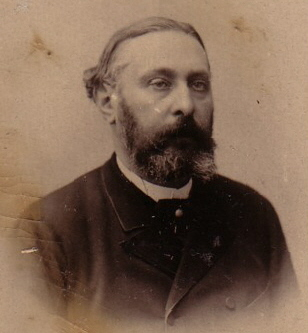 French poet Sully-Prudhomme.